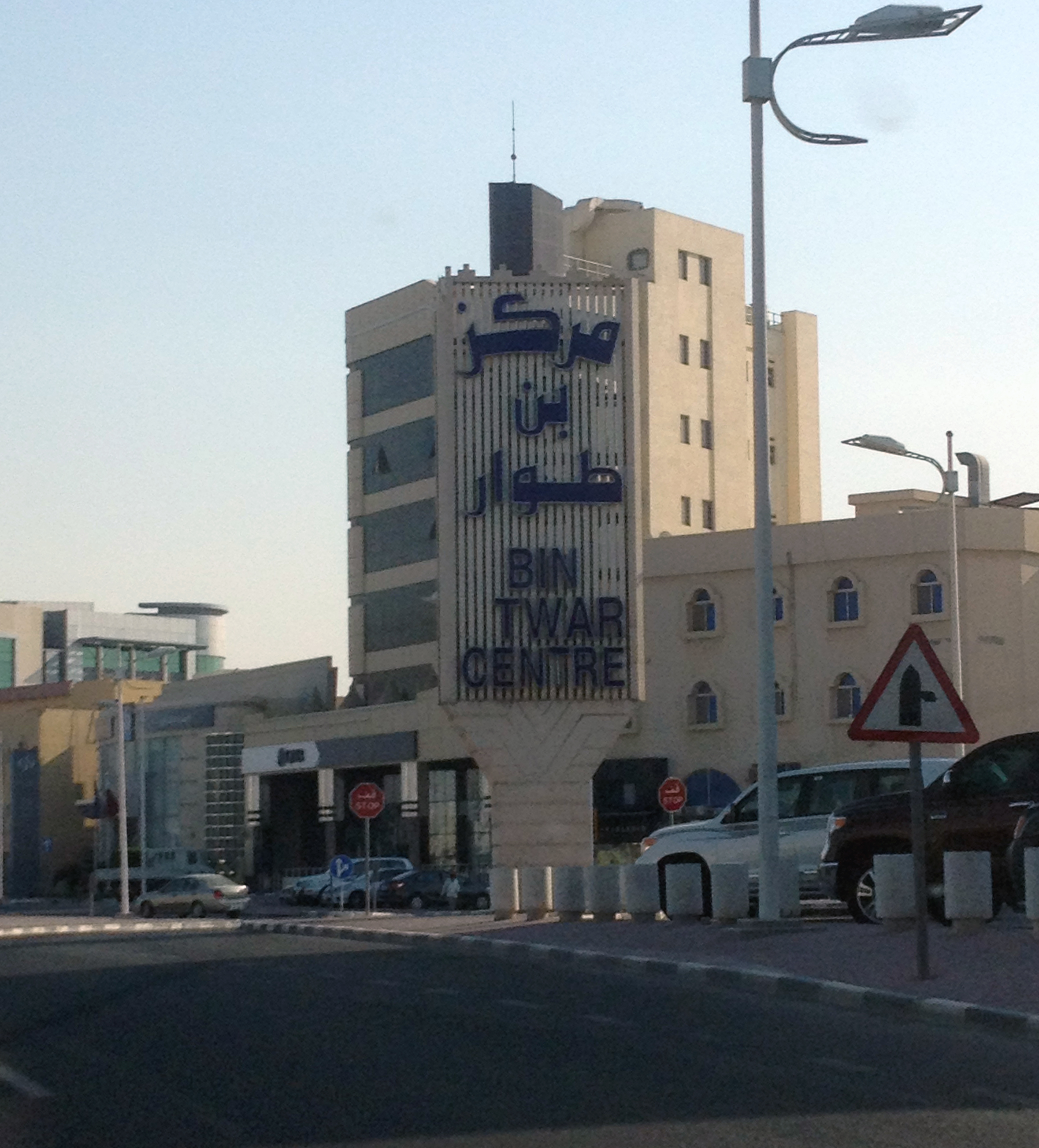 Bin Twar Centre in the Fereej Kulaib neighborhood of Doha, Qatar.